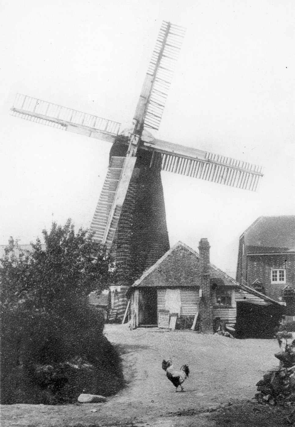 Pratt's Mill, Crowborough c1905. Reproduction postcard by Pamlin Prints, Croydon, issued late 1970s